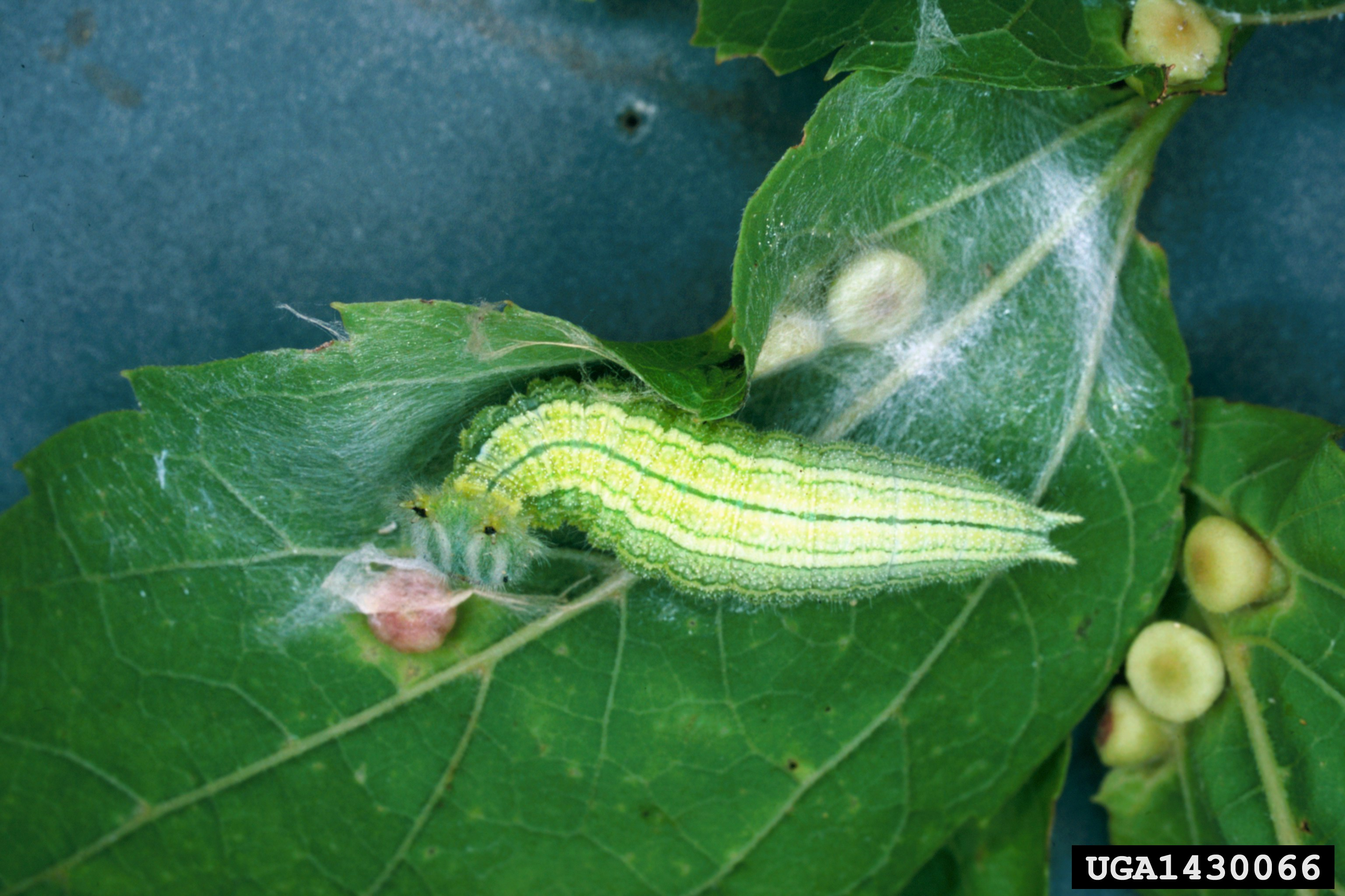 Caterpillar of Tawny Emperor (Asterocampa clyton)